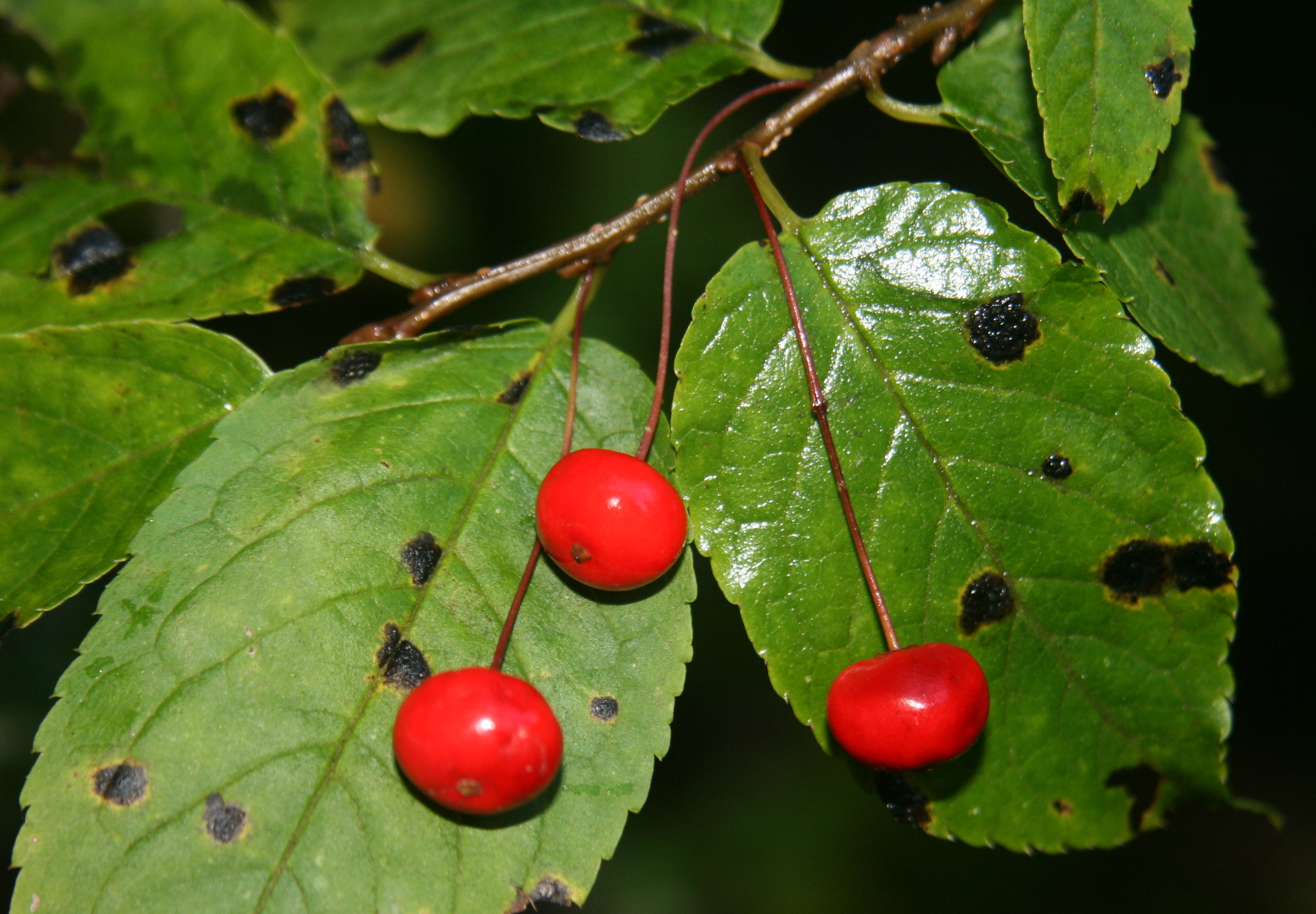 Ilex geniculata fruit detail